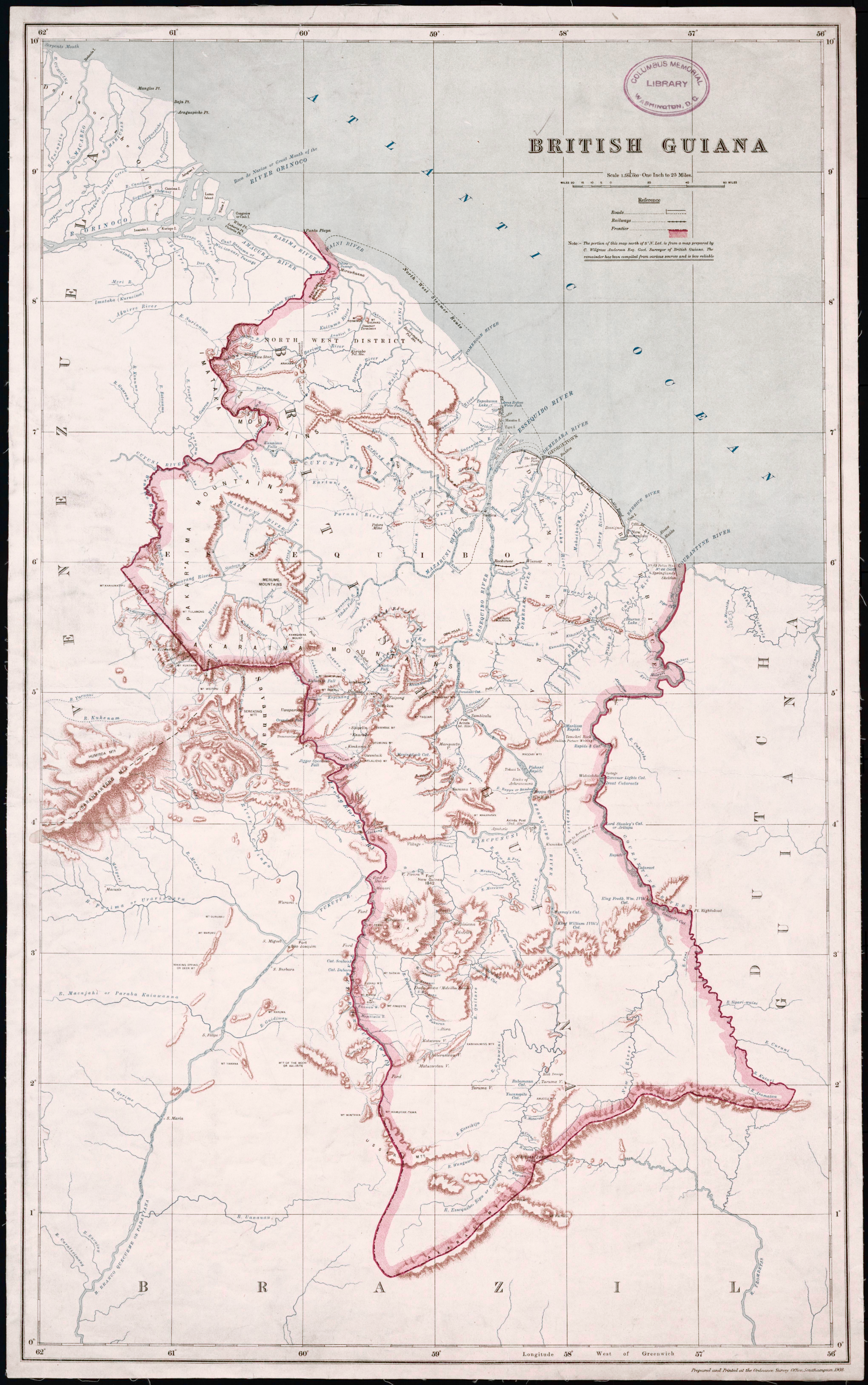 British Guiana, 1908 Creator: Great Britain. Ordnance Survey Surveyor: Anderson, Charles Wilgress "This map, prepared and printed in 1908 at the office of the Ordnance Survey, Southampton, United Kingdom, provides a relatively detailed view of the geography of British Guiana (present-day Guyana), one of only two British colonies on the mainland of South and Central America (the other being British Honduras). A note indicates that the portion of the map north of 5° North latitude is from a map prepared by the government surveyor of British Guiana, while the remainder of the map “has been compiled from various sources and is less reliable.” Much of the territory in the south of the country was as yet unexplored. Bordered to the west by Venezuela, to the south by Brazil, and to the east by Dutch Guiana (present-day Suriname), British Guiana was the subject of a longstanding border dispute with Venezuela, in which the United States became involved and that was settled by arbitration in 1899. The map reflects the settlement, which awarded Britain most of the disputed territory but gave Venezuela undisputed control over the Orinoco River. The map shows international borders, cities and towns, railroads, posts and forts, and physical features such as rivers, cataracts, and hills and mountains."